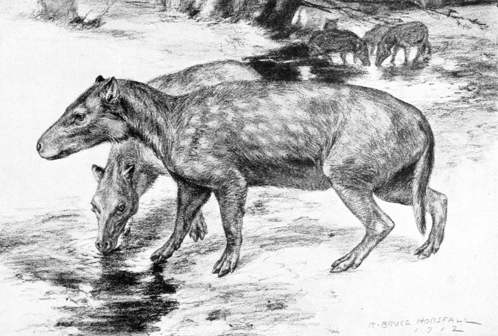 Life restoration of Elomeryx armatus (jr synonym Bothriodon brachyrhynchus) from W.B. Scott's "A History of Land Mammals in the Western Hemisphere." New York: The Macmillan Company.